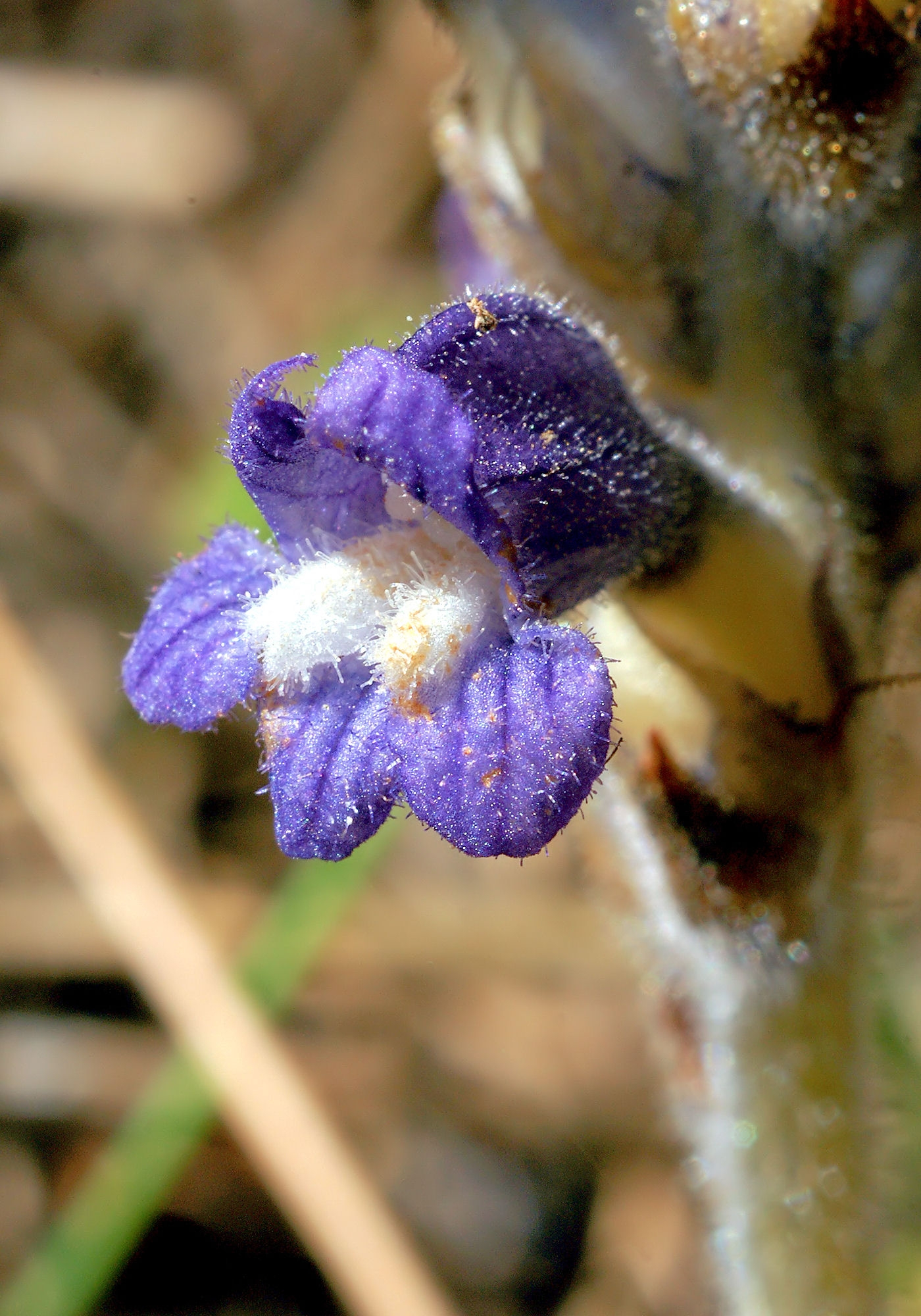 Orobanche mutelii